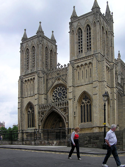 The main front of Bristol Cathedral.